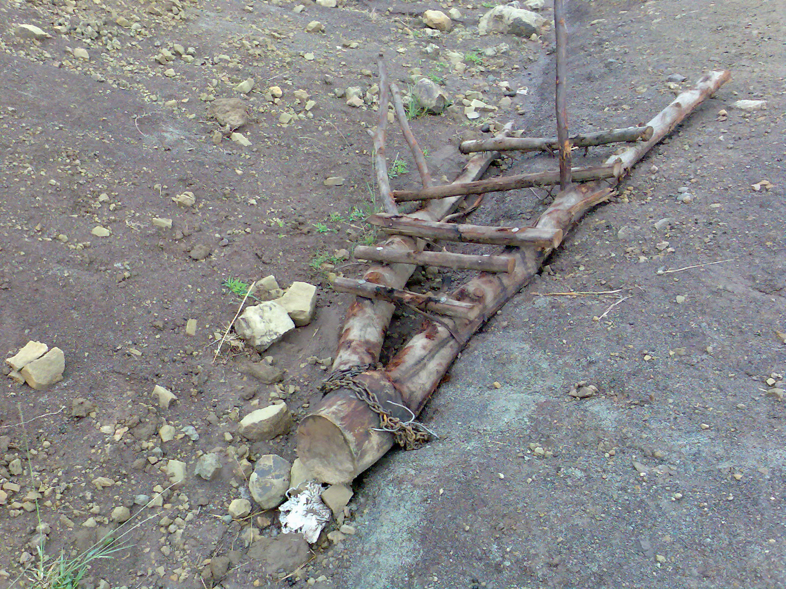 Sled with chain on mountain road north of Ngcobo, Eastern Cape. The sled is crafted from the fork of a Black-wattle tree and is drawn by oxen.